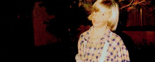 D.C. Douglas as Uncle Bill in "Little Red Riding Hood" for CMTSJ